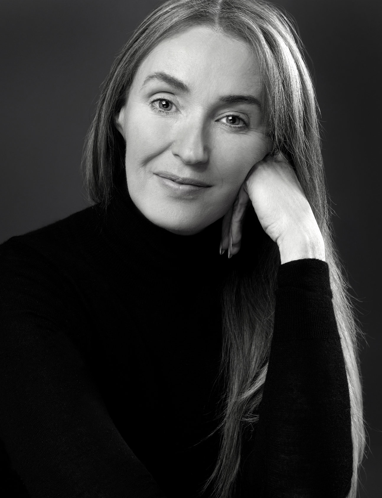 Press image of Lisa Gerrard provided via her official website to the public for the purposes of publicity.